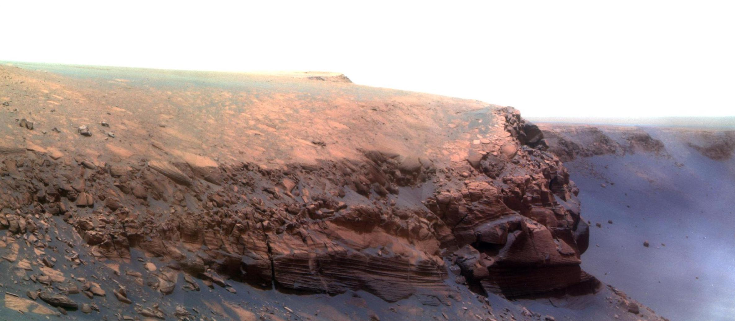 A promontory nicknamed "Cape Verde" can be seen jutting out from the walls of Victoria Crater in this false-color picture taken by the panoramic camera on NASA's Mars Exploration Rover Opportunity. The rover took this picture on martian day, or sol, 1329 (Oct. 20, 2007), more than a month after it began descending down the crater walls -- and just 9 sols shy of its second Martian birthday on sol 1338 (Oct. 29, 2007). Opportunity landed on the Red Planet on Jan. 25, 2004. That's nearly four years ago on Earth, but only two on Mars because Mars takes longer to travel around the sun than Earth. One Martian year equals 687 Earth days. This view was taken using three panoramic-camera filters, admitting light with wavelengths centered at 750 nanometers (near infrared), 530 nanometers (green) and 430 nanometers (violet).